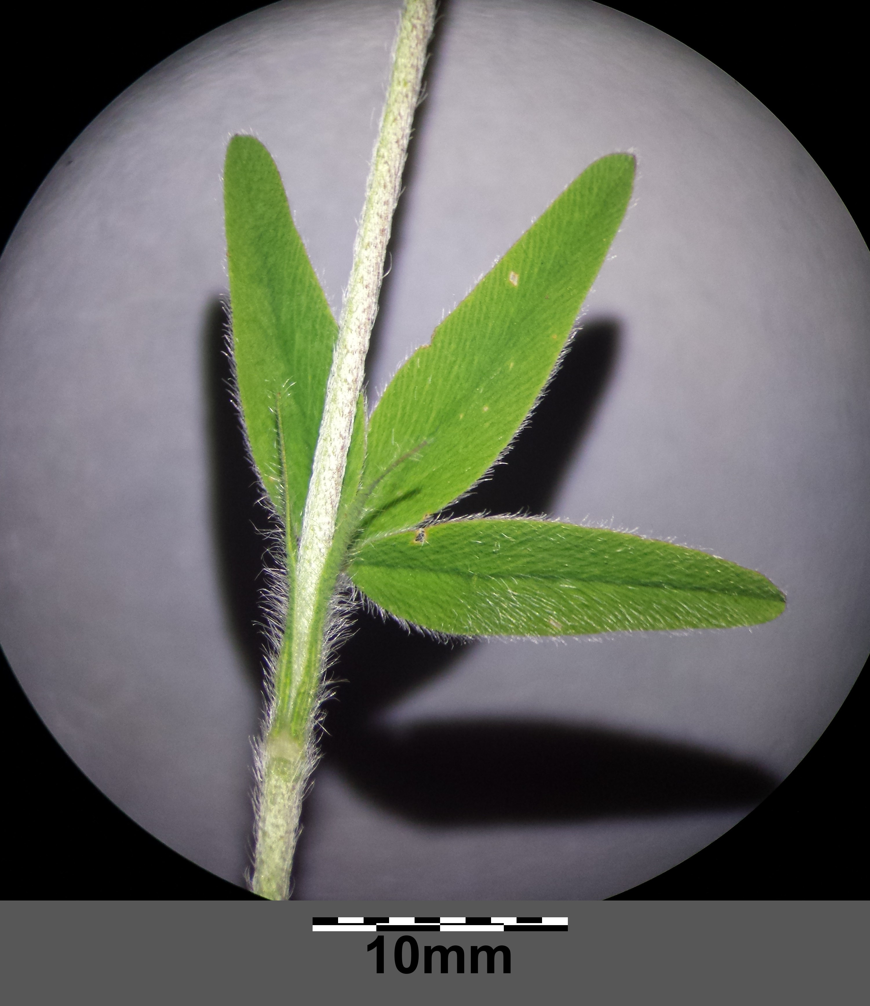 Stem with leaf Taxonym: Trifolium ochroleucon ss Fischer et al. EfÖLS 2008 ISBN 978-3-85474-187-9 Location: near Kaltenleutgeben, district Mödling, Lower Austria - ca. 430 m a.s.l. Habitat: meadows